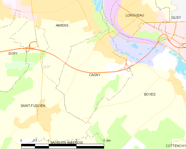 Map of French municipality Cagny